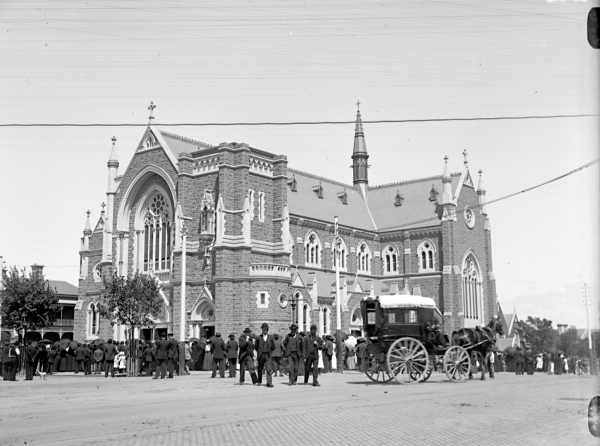 Historical Shot